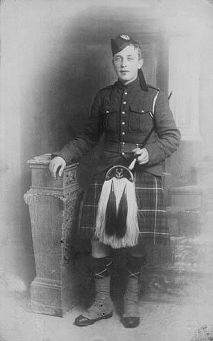 Photograph of piper James Cleland Richardson, VC wearing his 72 Seaforth Highlanders of Canada uniform. As a member of the 16th Battalion (Canadian Scottish), Canadian Expeditionary Force (CEF), he became the youngest Canadian to win the Victoria Cross, at age 20, during the Battle of the Somme, 8 October 1916. The decoration was awarded posthumously.